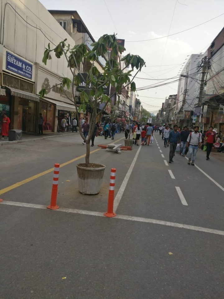 Karol Bagh Market - Revitalized 2019